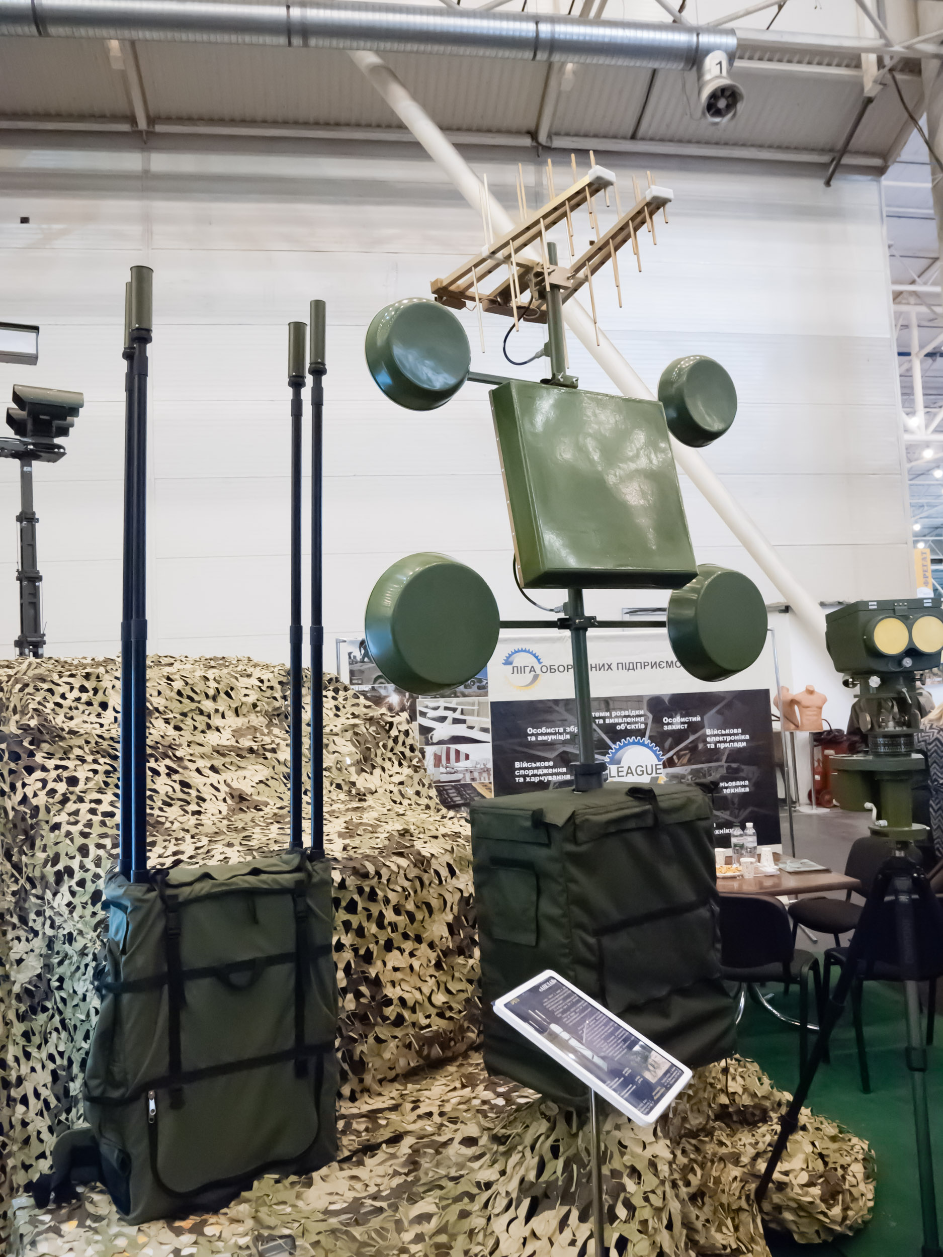 Anklav counter-UAV system by Ukrspetstechnika (Ukraine) at 'Zbroya ta Bezpeka' military fair, Kyiv, Ukraine, 2017